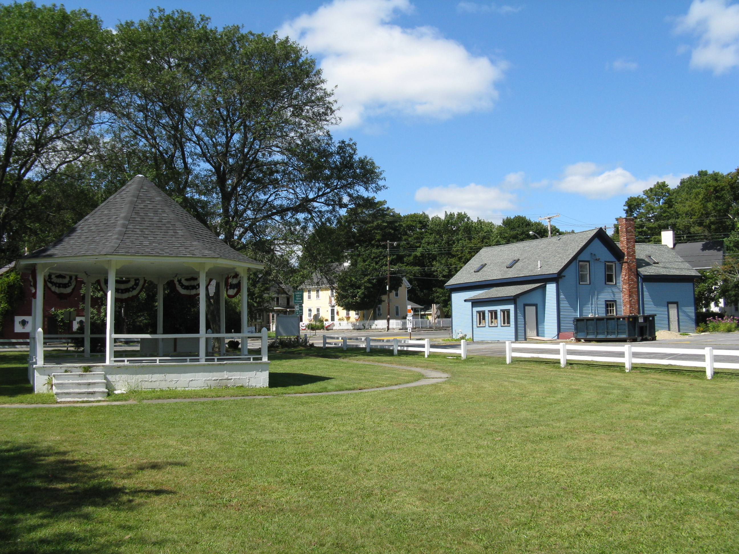 Freetown Common, Assonet, Freetown Massachusetts